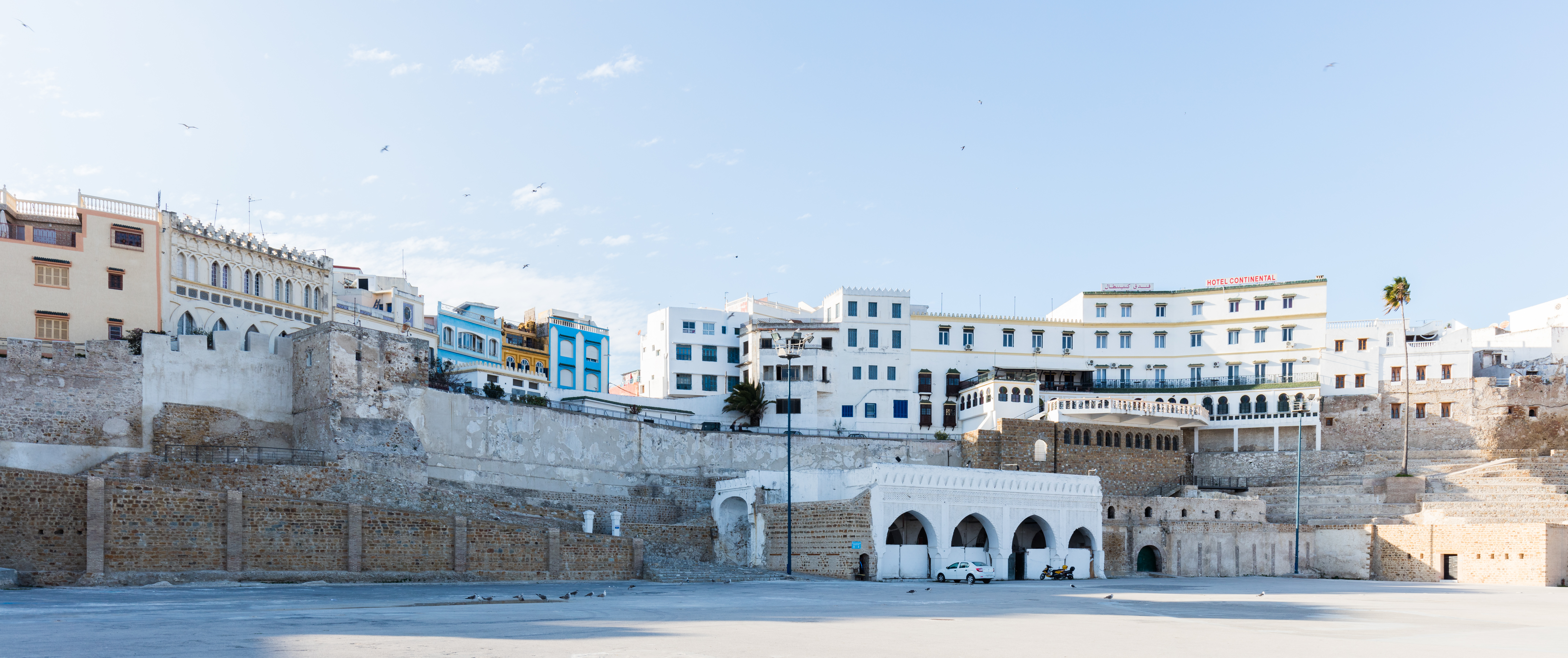 Wall of Tangier, Morocco